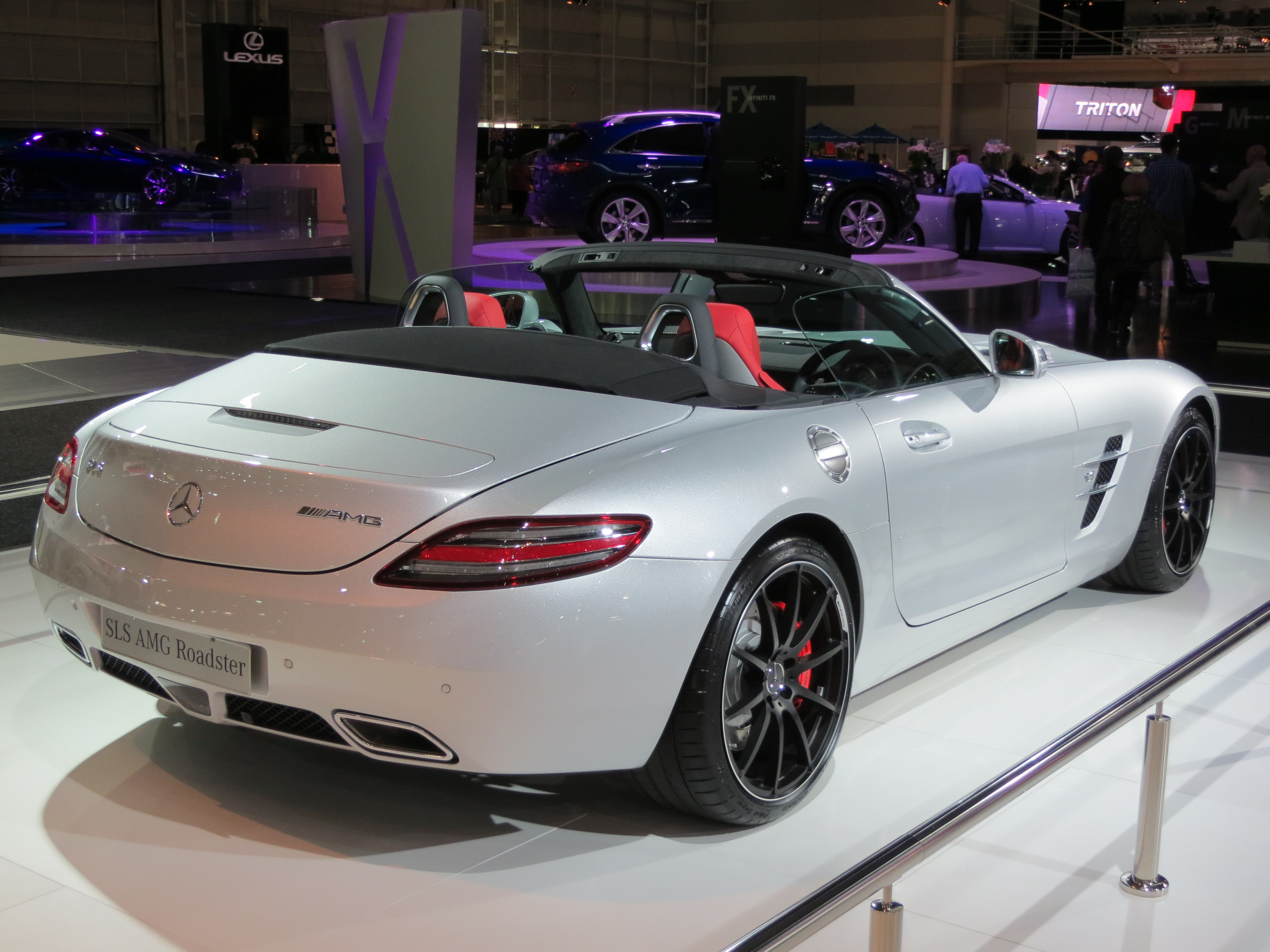 2012 Mercedes-Benz SLS AMG (R 197) roadster. Photographed at the 2012 Australian International Motor Show, Sydney, New South Wales, Australia.